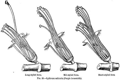 Fig29 from Darwinism by Alfred Russel Wallace, 1889